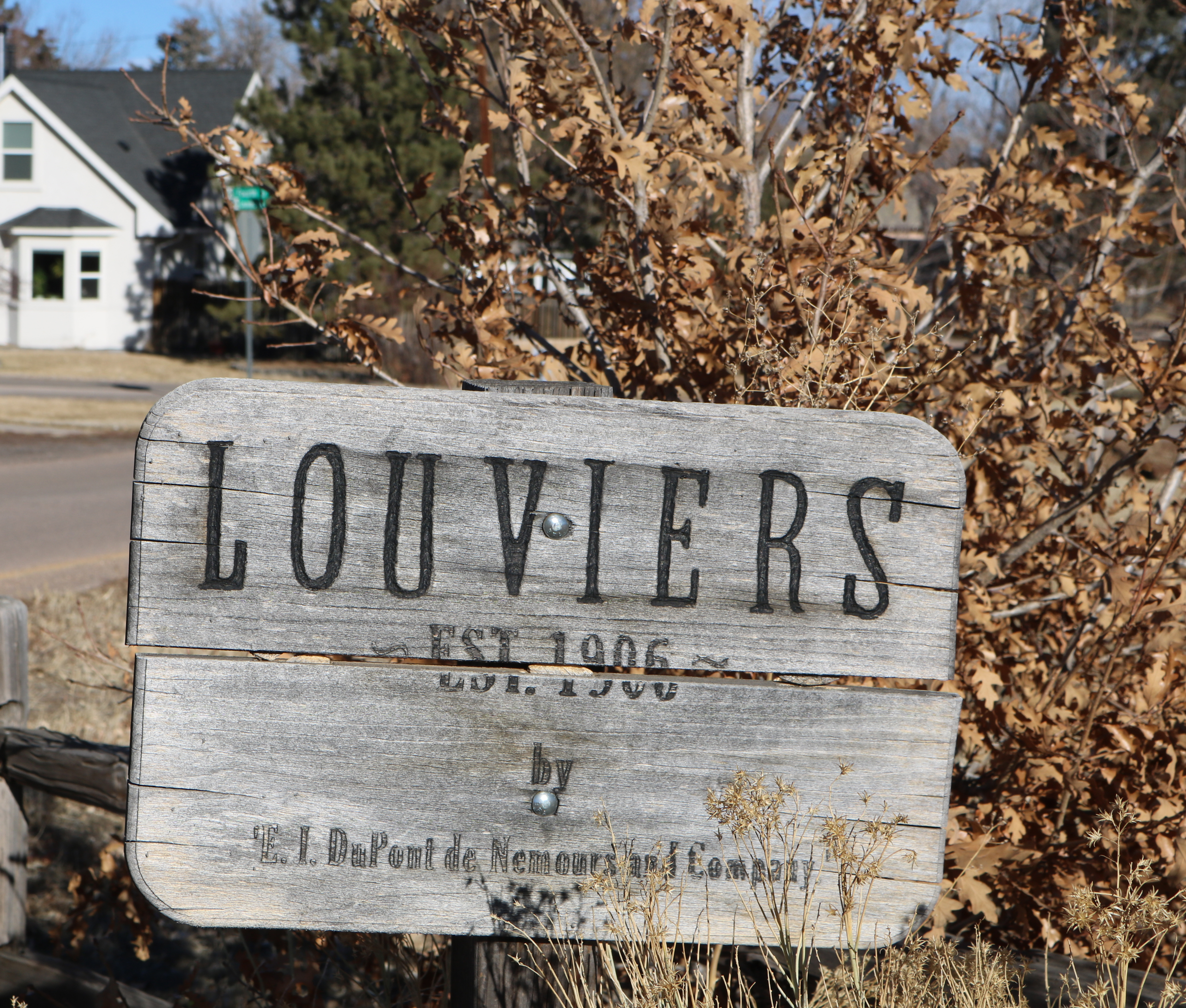 One of the signs marking the entrance to Louviers, Colorado.